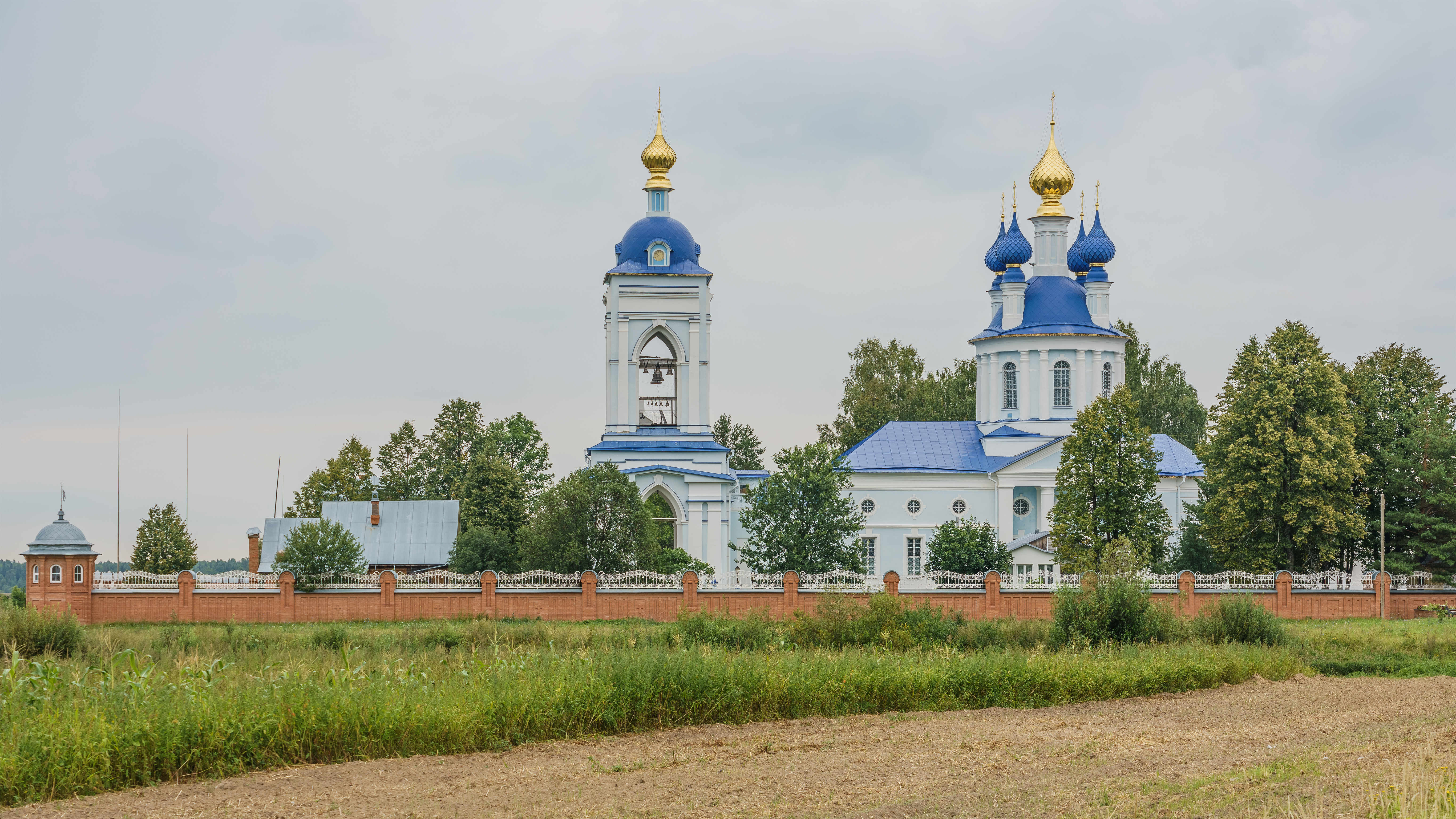 Assumption Convent in Dunilovo, Ivanovo Oblast, Russia